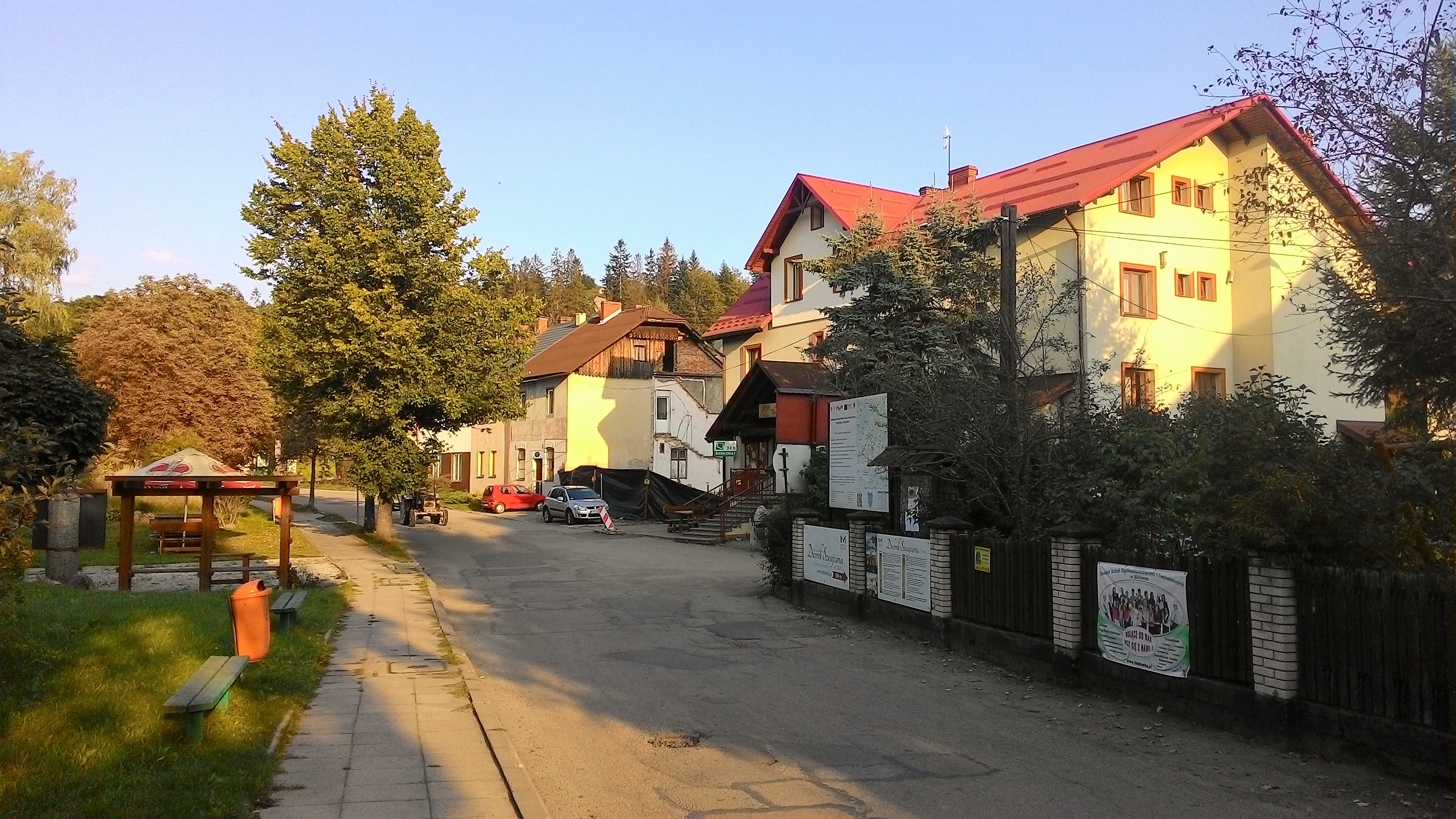 In the center of the village Zwardoń near to the Polish-Slovak border.